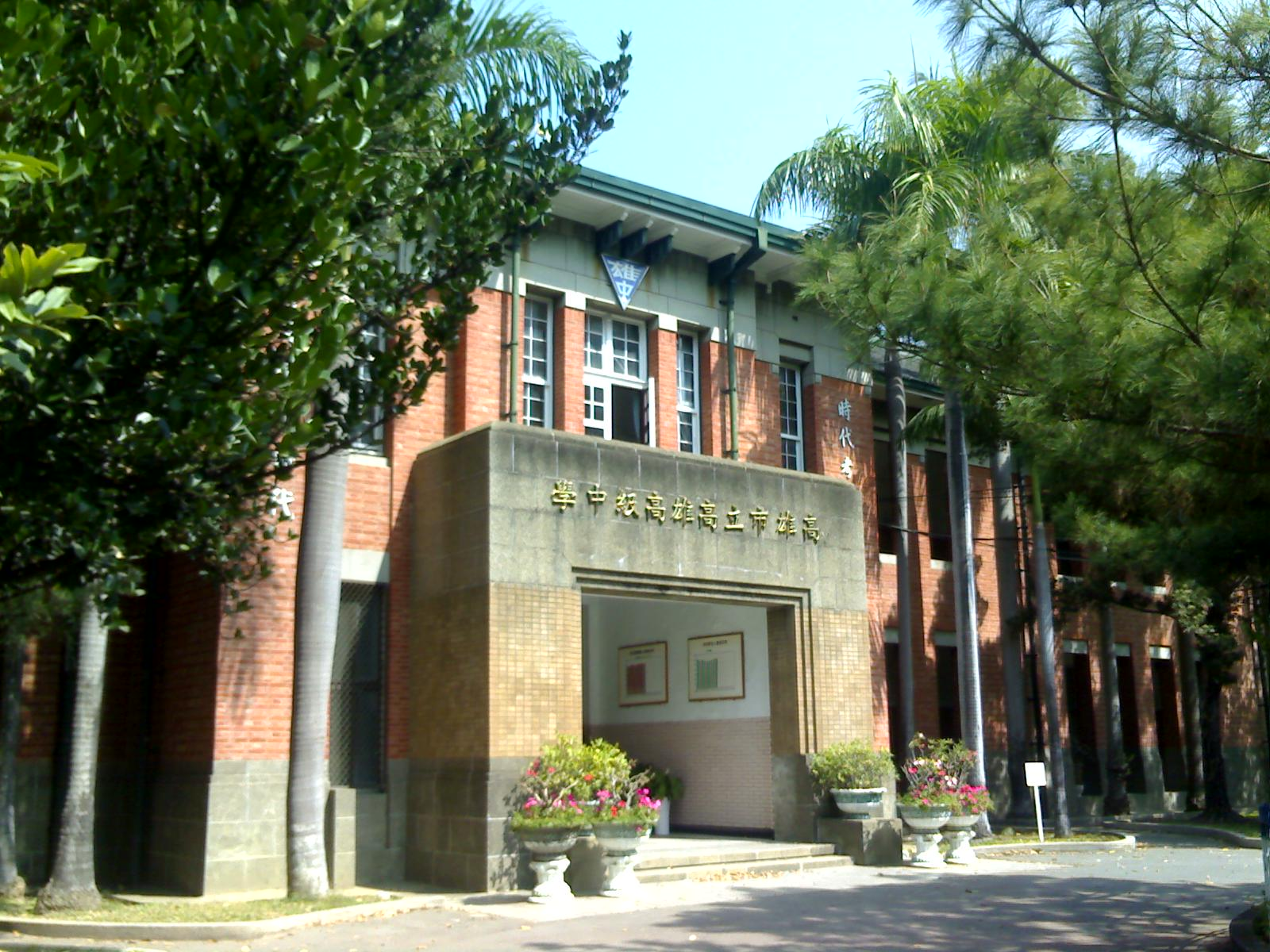 高雄中學 Kaohsiung Senior High School